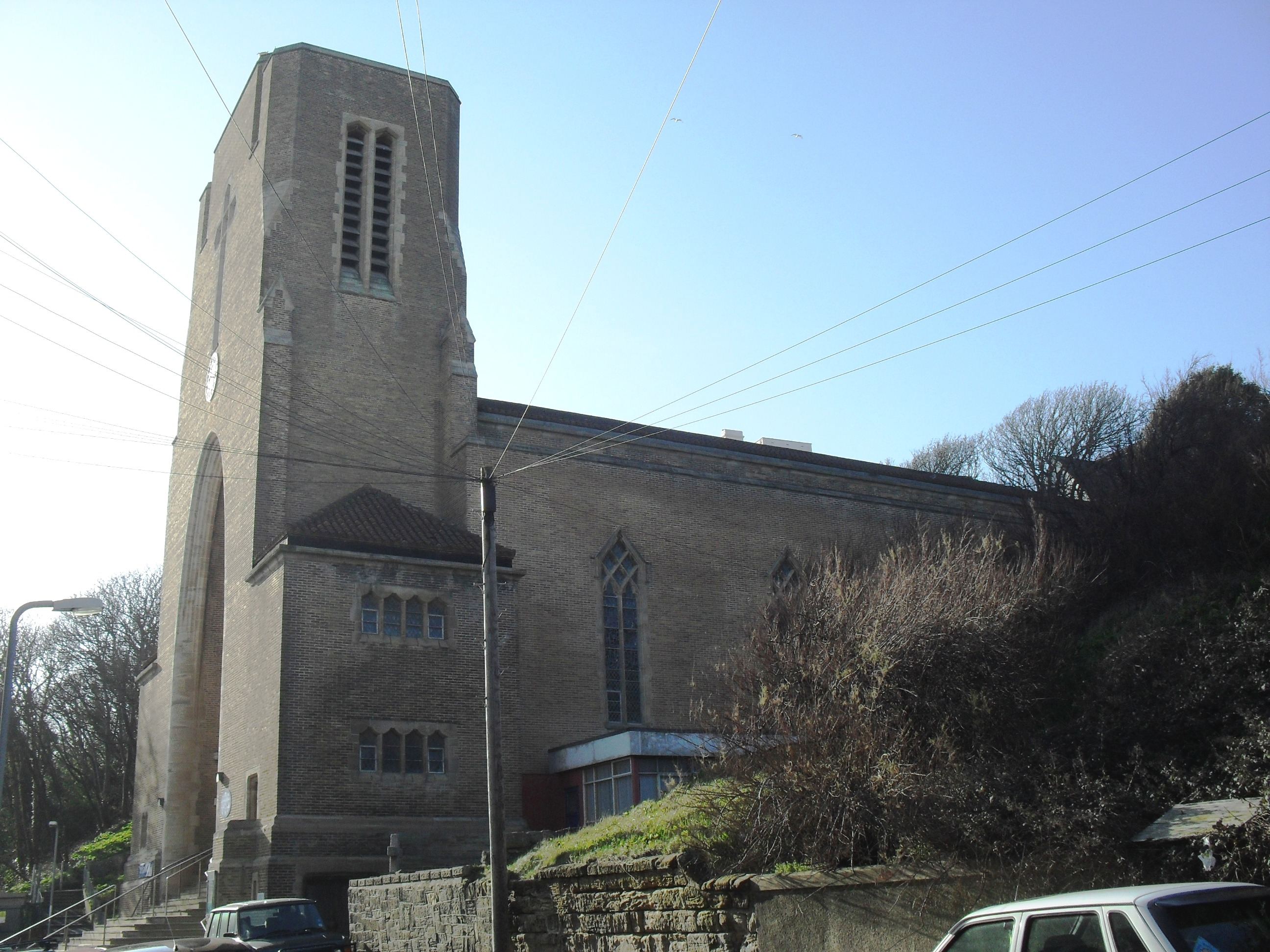 St Leonard's Church, Marina, St Leonards-on-Sea, Hastings, East Sussex, England, seen from the east. Built in 1832 for James Burton as part of his St Leonards-on-Sea development. Damaged in the Second World War. Rebuilt between 1953–61 to designs by Giles and Adrian Gilbert-Scott.